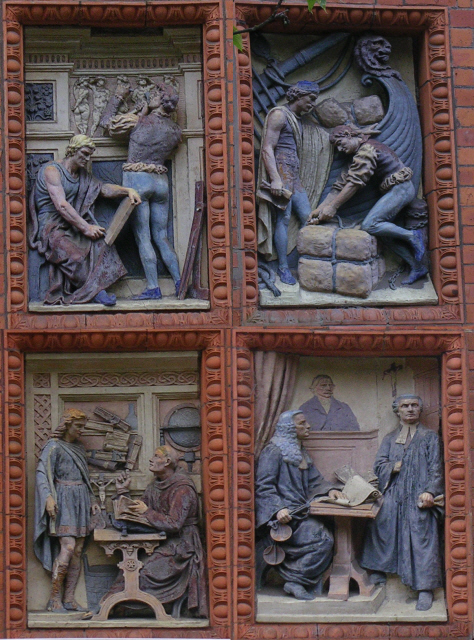 St Bede's, Whalley Range. Composite picture showing detail of carvings near college entrance. SJ83369500.